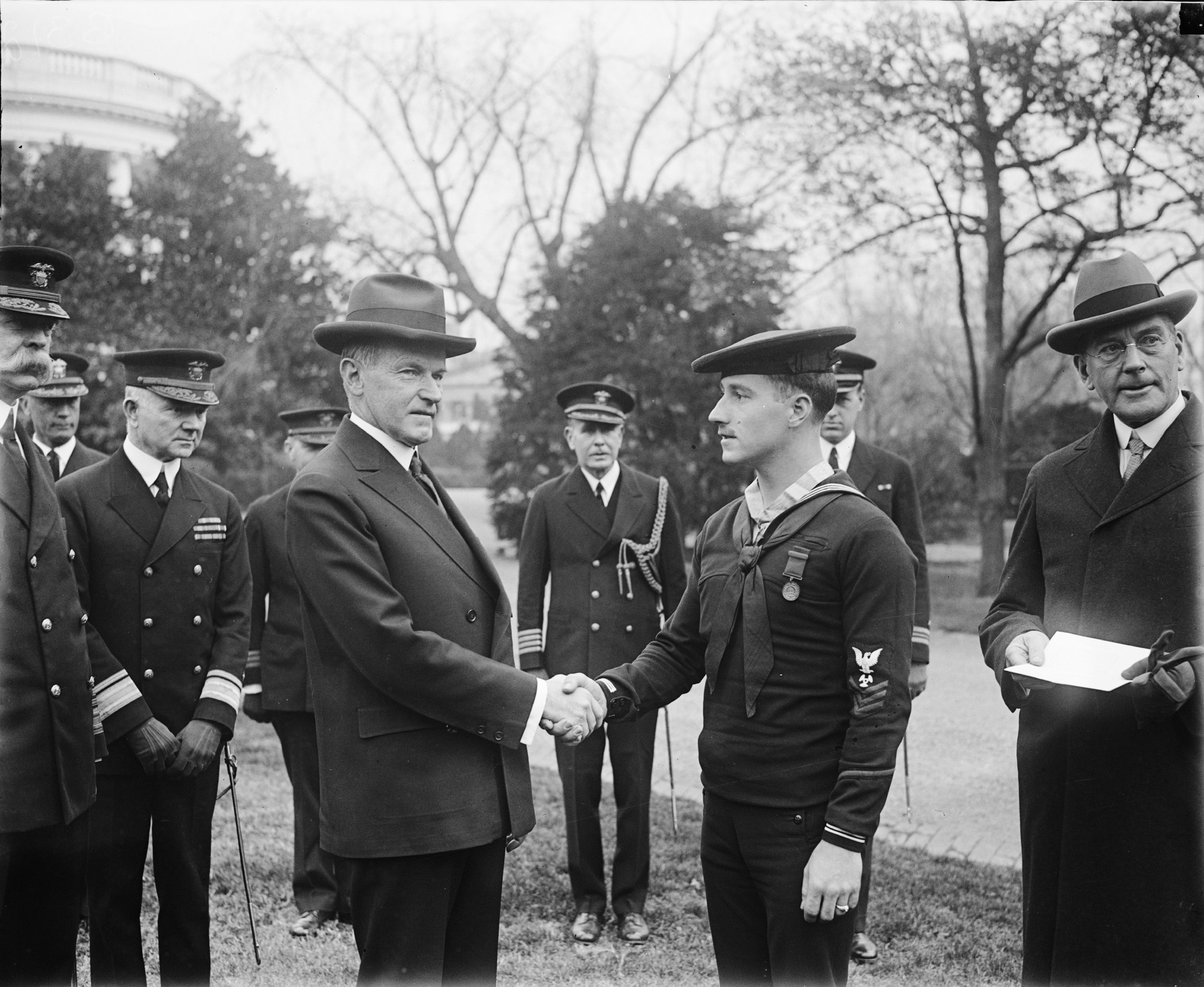 LC-DIG-HEC-35200: President Calvin Coolidge presents the Medal of Honor to Machinist’s Mate at the White House, Washington, D.C. Secretary of the Navy Curtis Wilbur stands to the right. To the far left stands Admiral Charles F. Hughes, 4th Chief of Naval Operations. Photographed by Harris & Ewing, December 8, 1928. Medal of Honor citation: “For display of extraordinary heroism in the line of his profession on 11 June 1928, after a boiler accident on the U.S.S. Bruce (DD 329), then at the Naval Shipyard, Norfolk, Va. Immediately on becoming aware of the accident, Huber without hesitation and in complete disregard of his own safety, entered the steam-filled fire-room and at grave risk to his life succeeded by almost superhuman efforts in carrying Charles H. Byran to safety. Although having received severe and dangerous burns about the arms and neck, he descended with a view toward rendering further assistance. The great courage, grit, and determination displayed by Huber on this occasion characterized conduct far above and beyond the call of duty.” He later served during WWII as a Lieutenant. Huber is buried in Golden Gate National Cemetery in San Bruno, California. (7/10/2015).